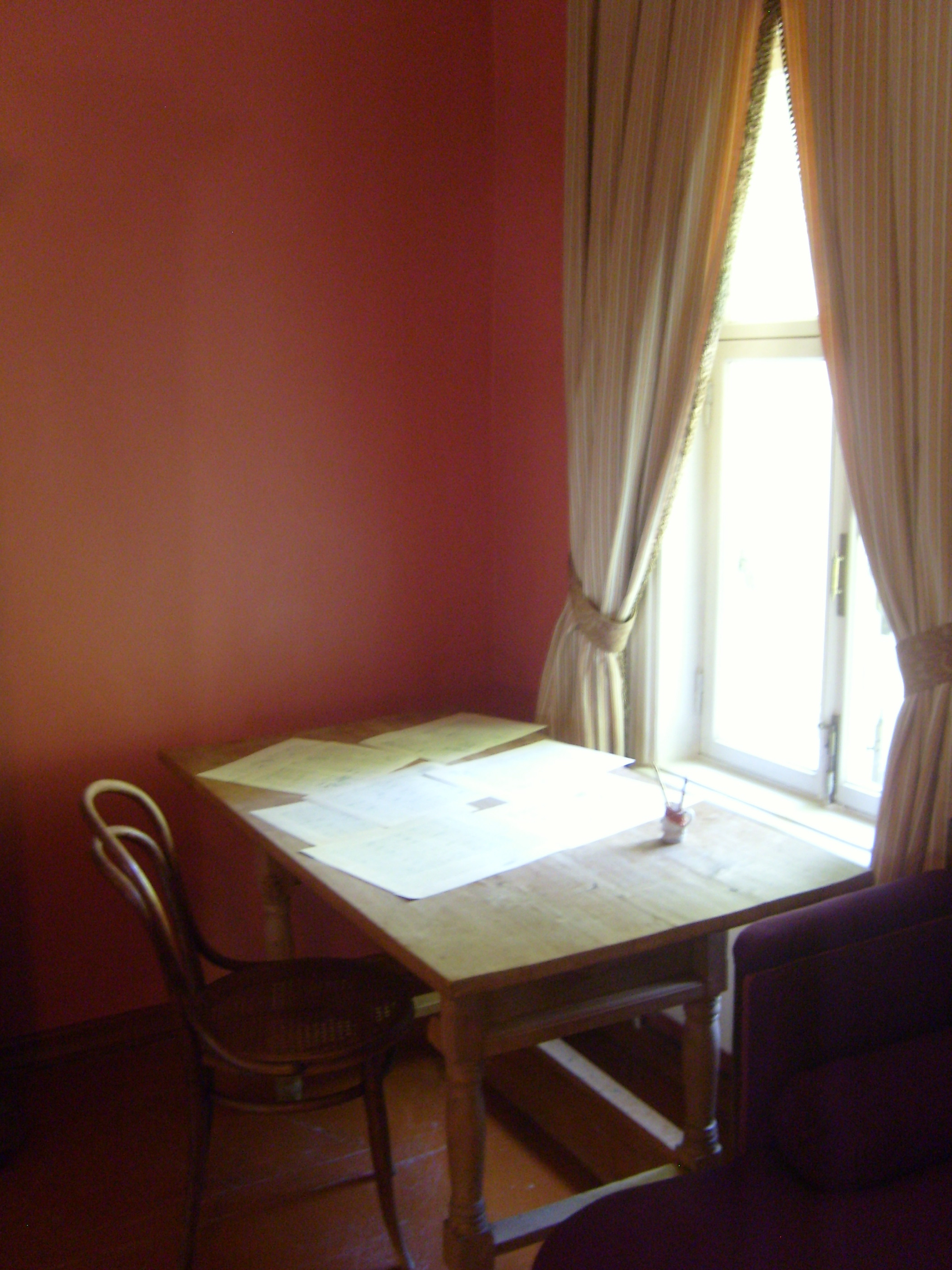 Table overlooking garden where Tchaikovsky wrote his 6th symphony, Pathetique